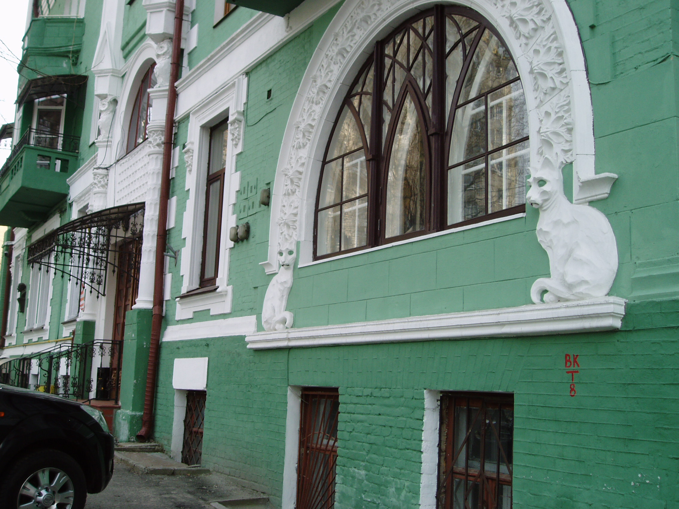 An arched window at the ground floor of the House with Cats in Kyiv, guarded by two cats respectively